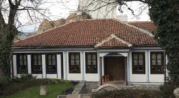 Chalukov 2